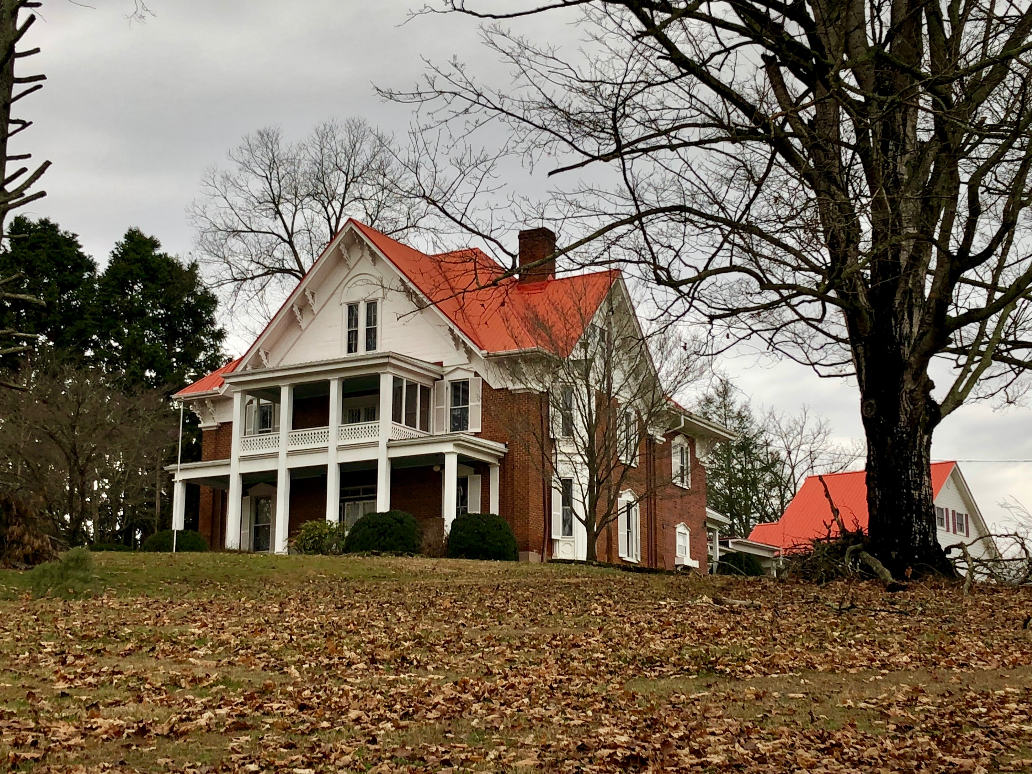 Hall of the Pines, Franklin, NC